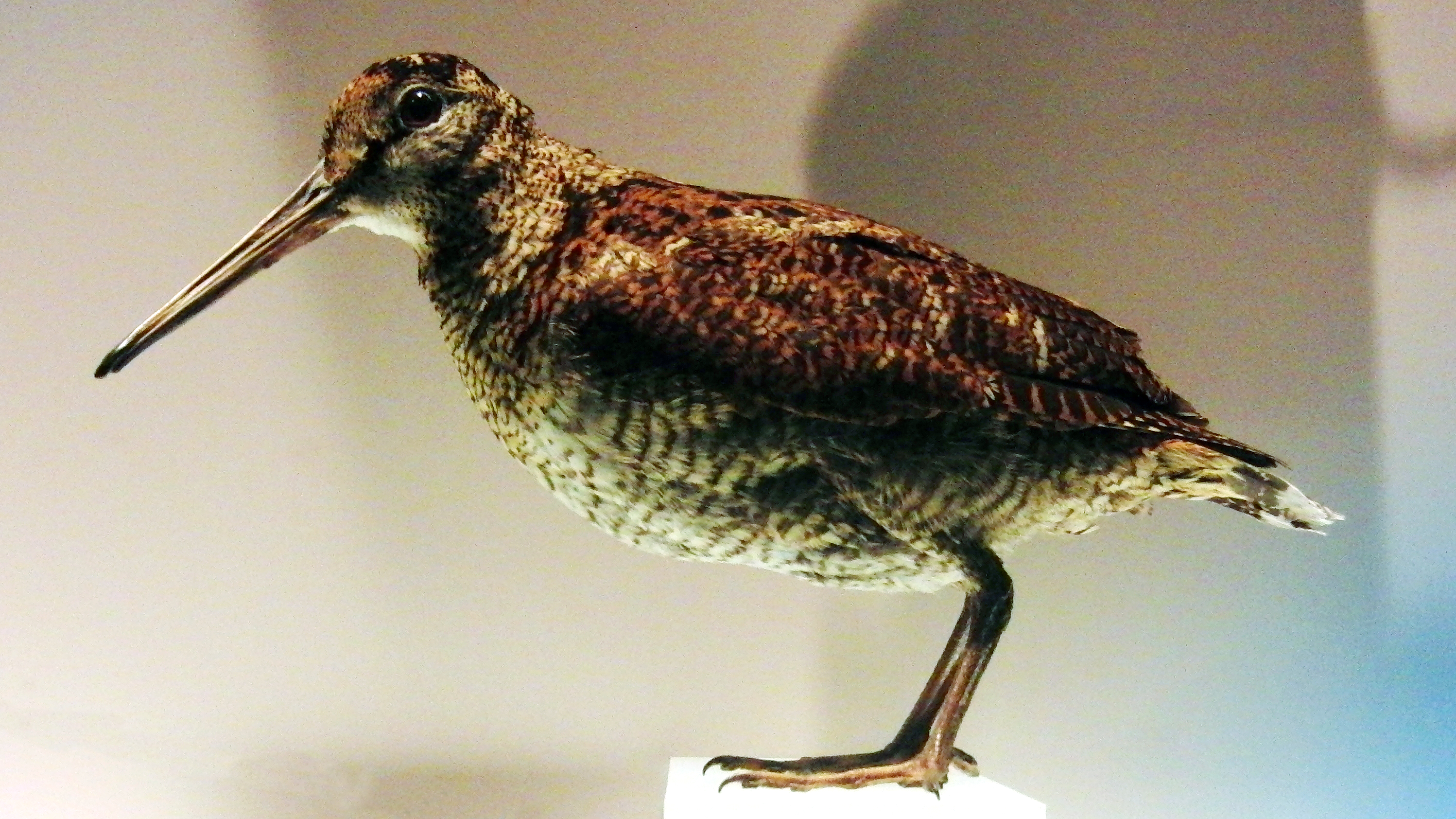 Stuffed specimen of Amami Woodcock (Scolopax mira). Exhibit in the National Museum of Nature and Science, Tokyo, Japan.